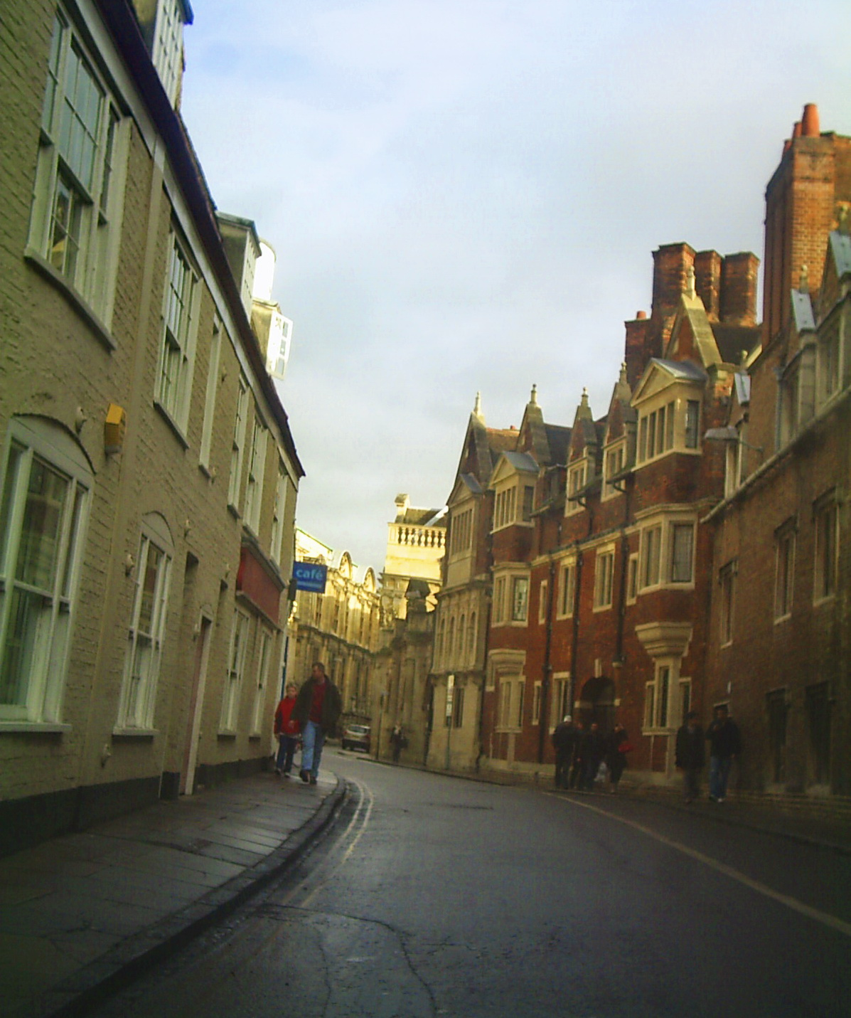 Toward Pembroke Street through Downing Street in Cambridge, United Kingdom.